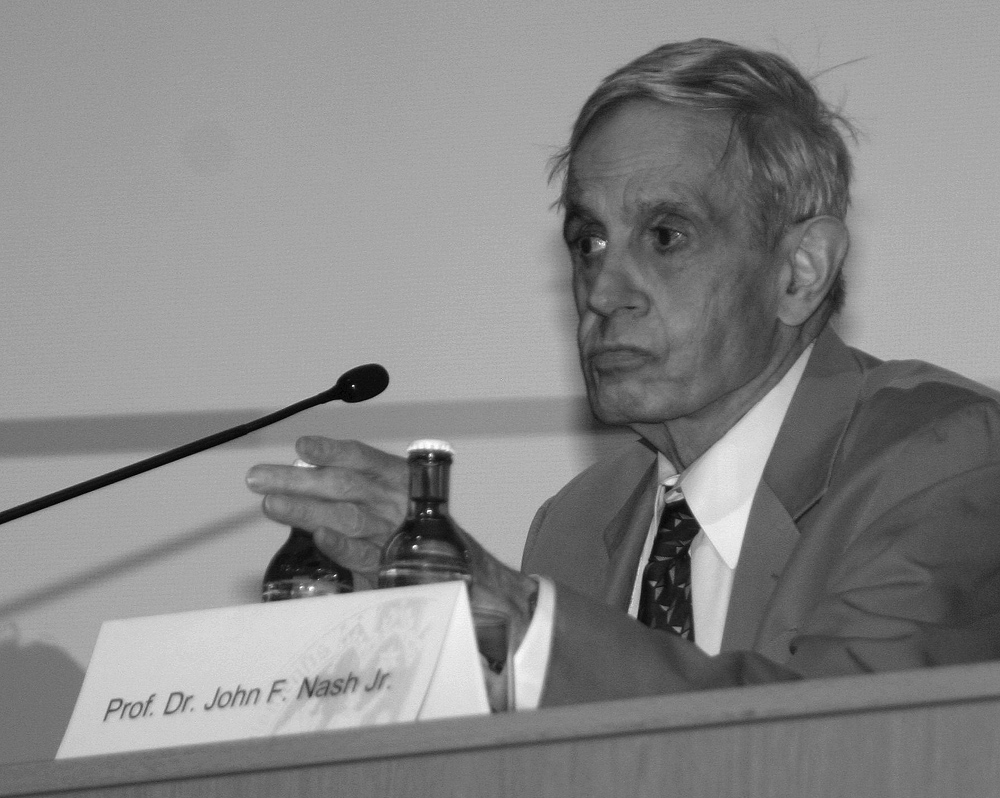 John Forbes Nash, American mathematician and winner of the Nobel Prize in Economics 1994, at a symposium of game theory at the university of Cologne, Germany